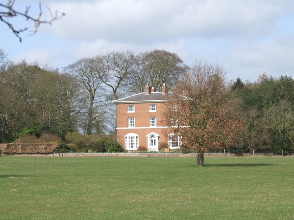 Shackerley Hall Now separated from the estate farm and Shackerley village by the M54 motorway.